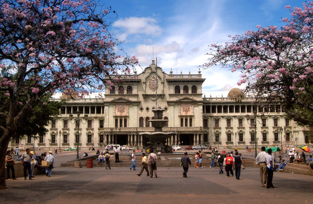 Guatemala's National Palace, now known as the "National Palace of Culture".